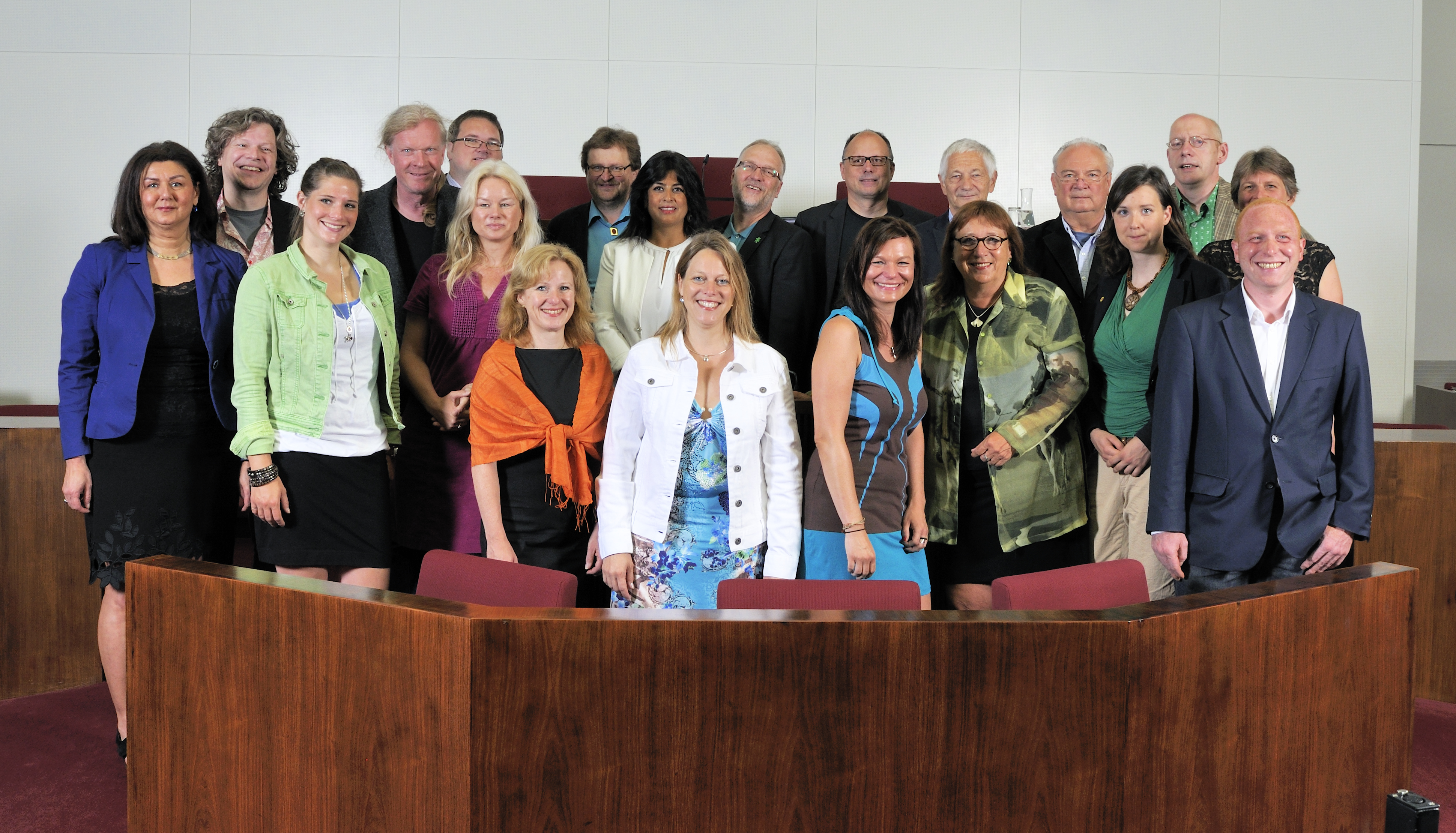 Photo of the parliamentary group Bündnis 90/Die Grünen of the Bürgerschaft of Bremen (as of 2014).